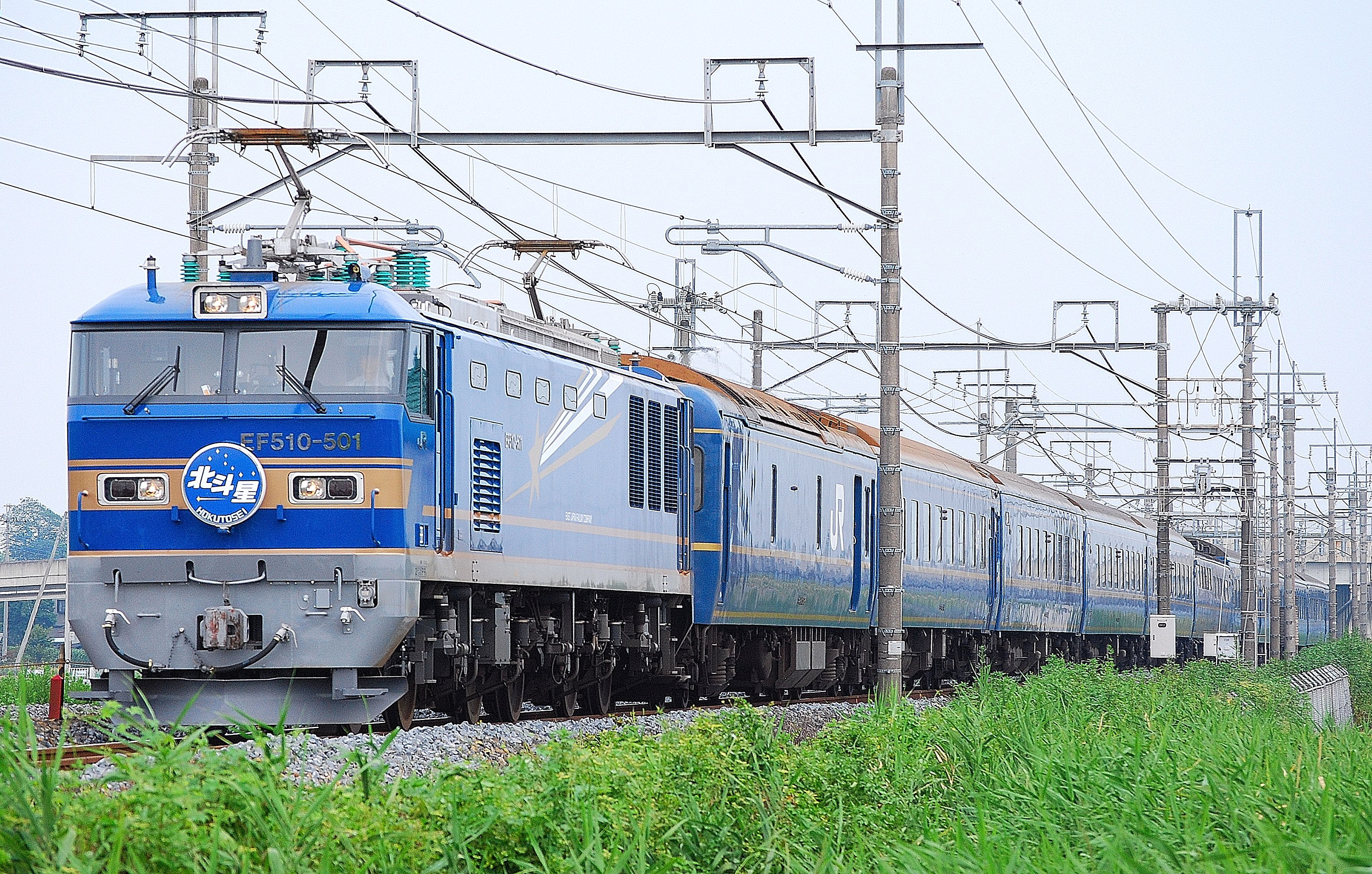 JR East EF510-501 hauling the "Hokutosei" sleeping car service on the Tohoku Main Line between Kurihashi and Higashi-Washinomiya Stations